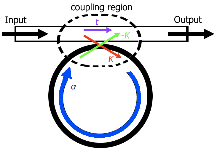 A graphical representation of where all of the coupling coefficients originate from